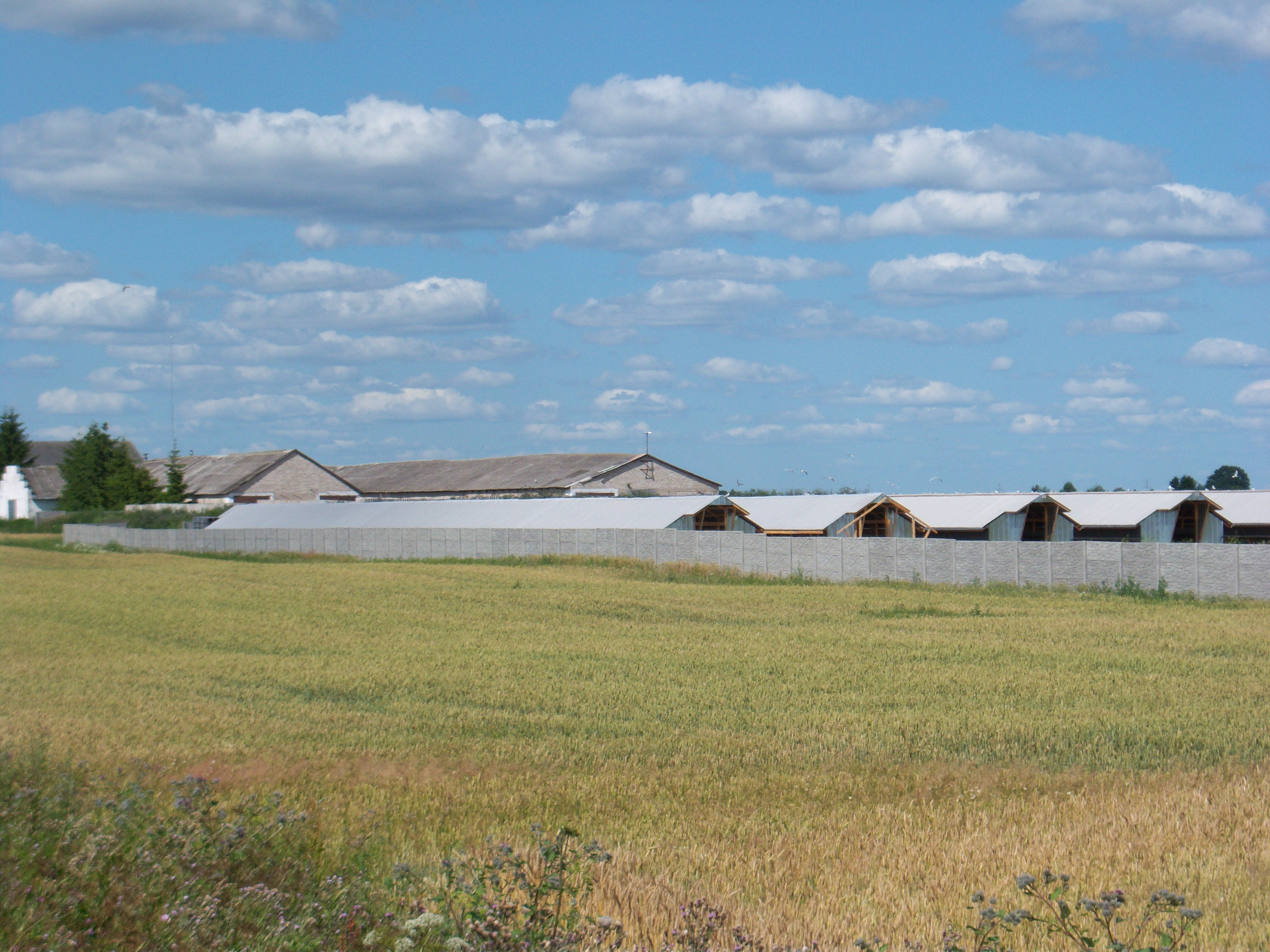 Girininkai (Rokai), Kaunas District, Lithuania